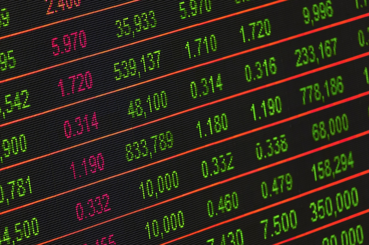 The stock market is an area in which Social Media may have predictive power